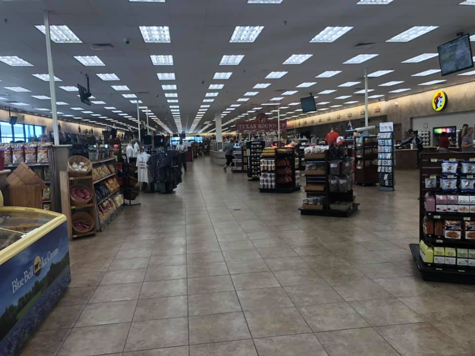 Inside the Buc-Ees Convenience Store in Waller, Texas